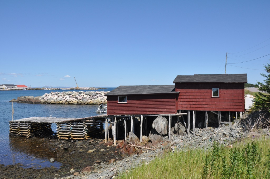 Custard Head Fishing Premises, Hants Harbour, Newfoundland.